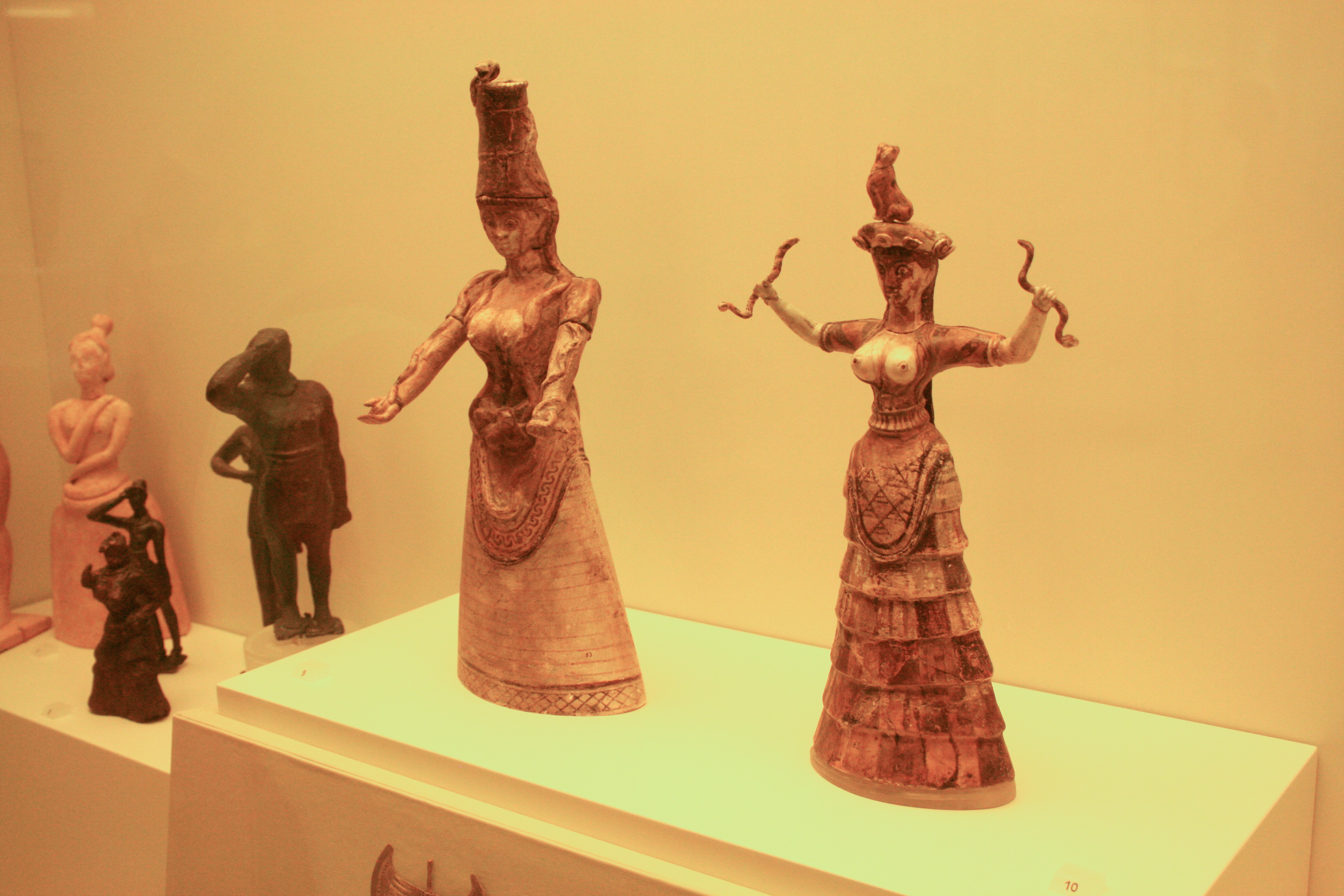 Snake goddess from knossos now in Heraklion Archaeological Museum.